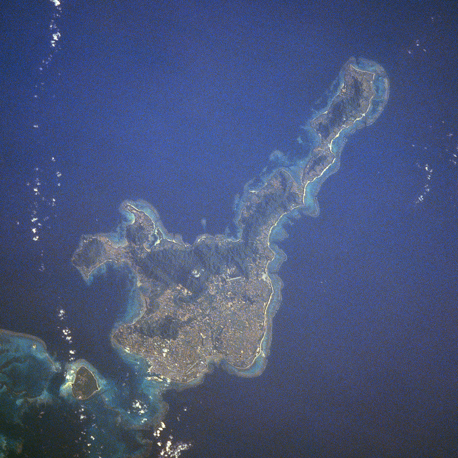 Ishigaki Island, Yaeyama Islands in Okinawa, Japan